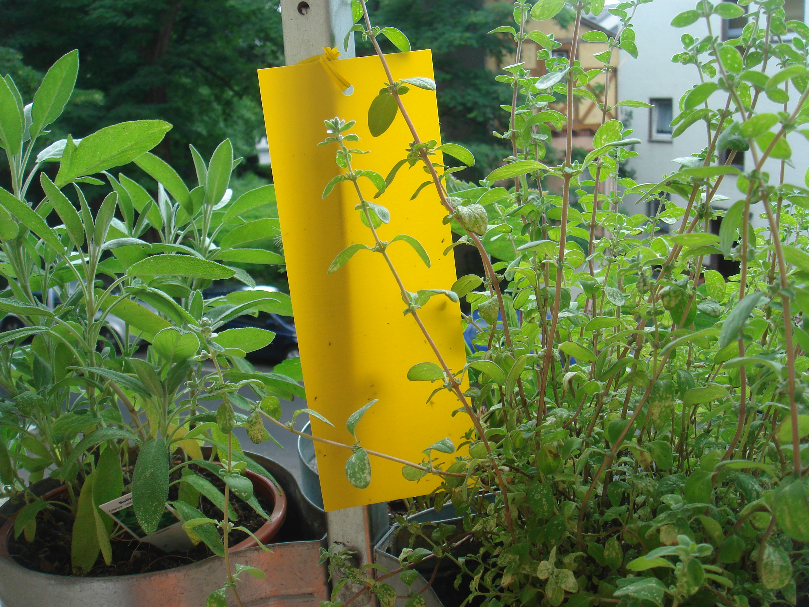 Gelbtafel (sticky plate to catch small flying pests)